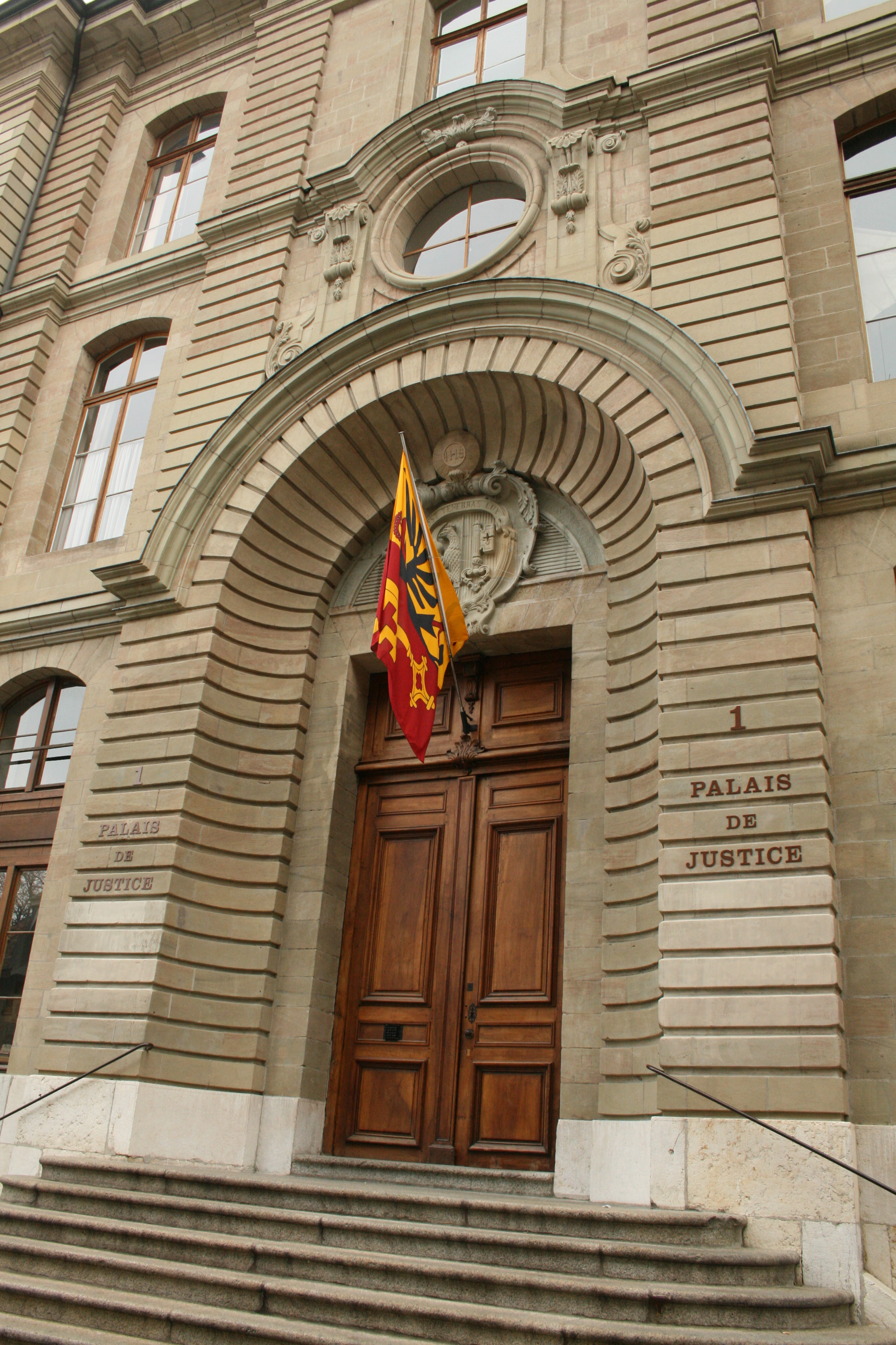 Downtown Geneva on a quiet Sunday